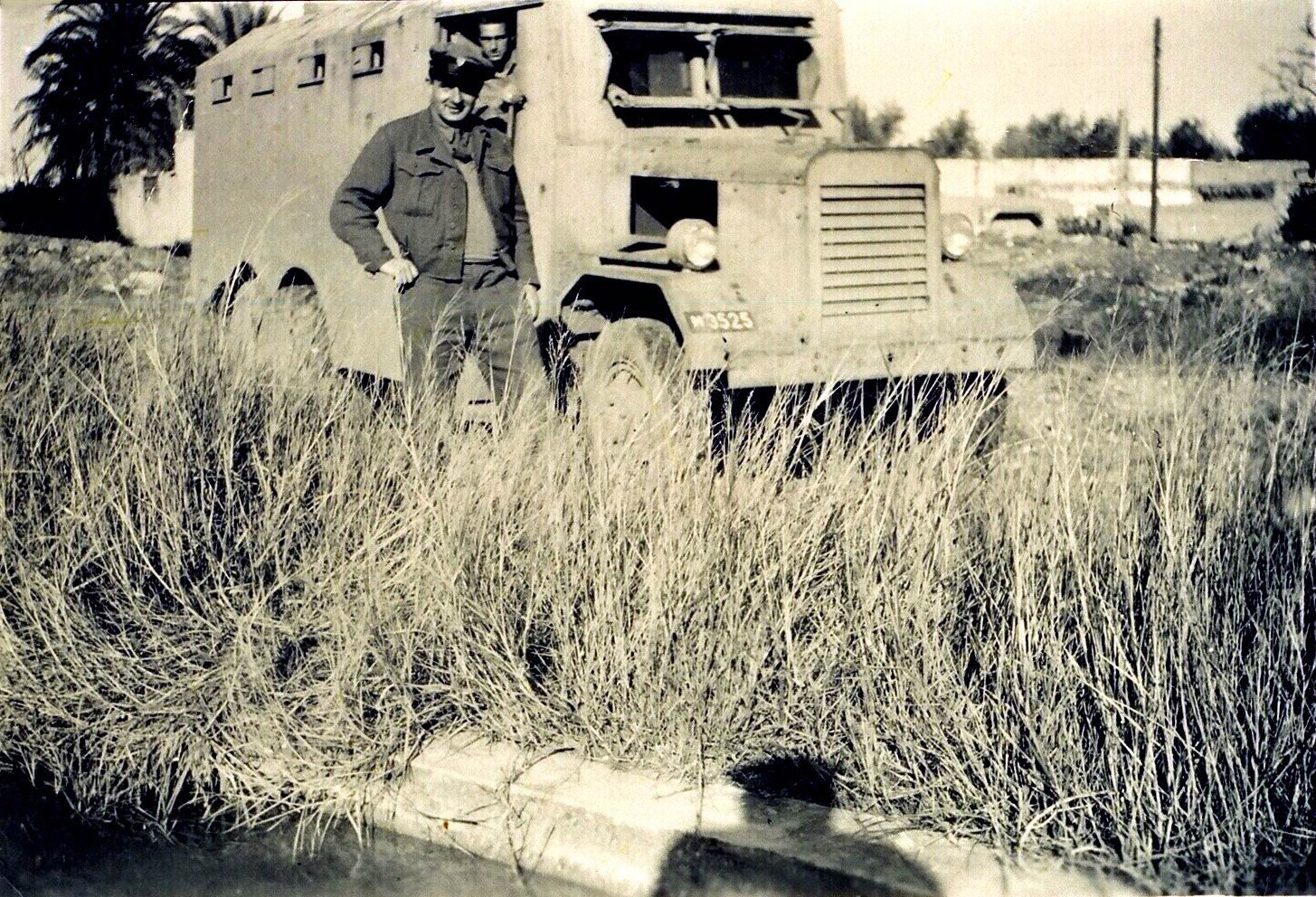 Transport in Israel